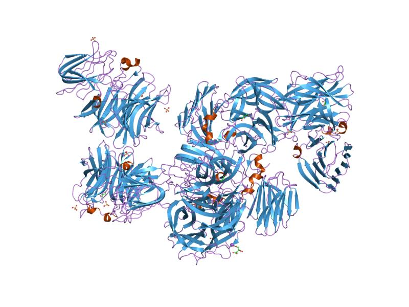 Cartoon representation of the molecular structure of protein registered with 1uyp code.